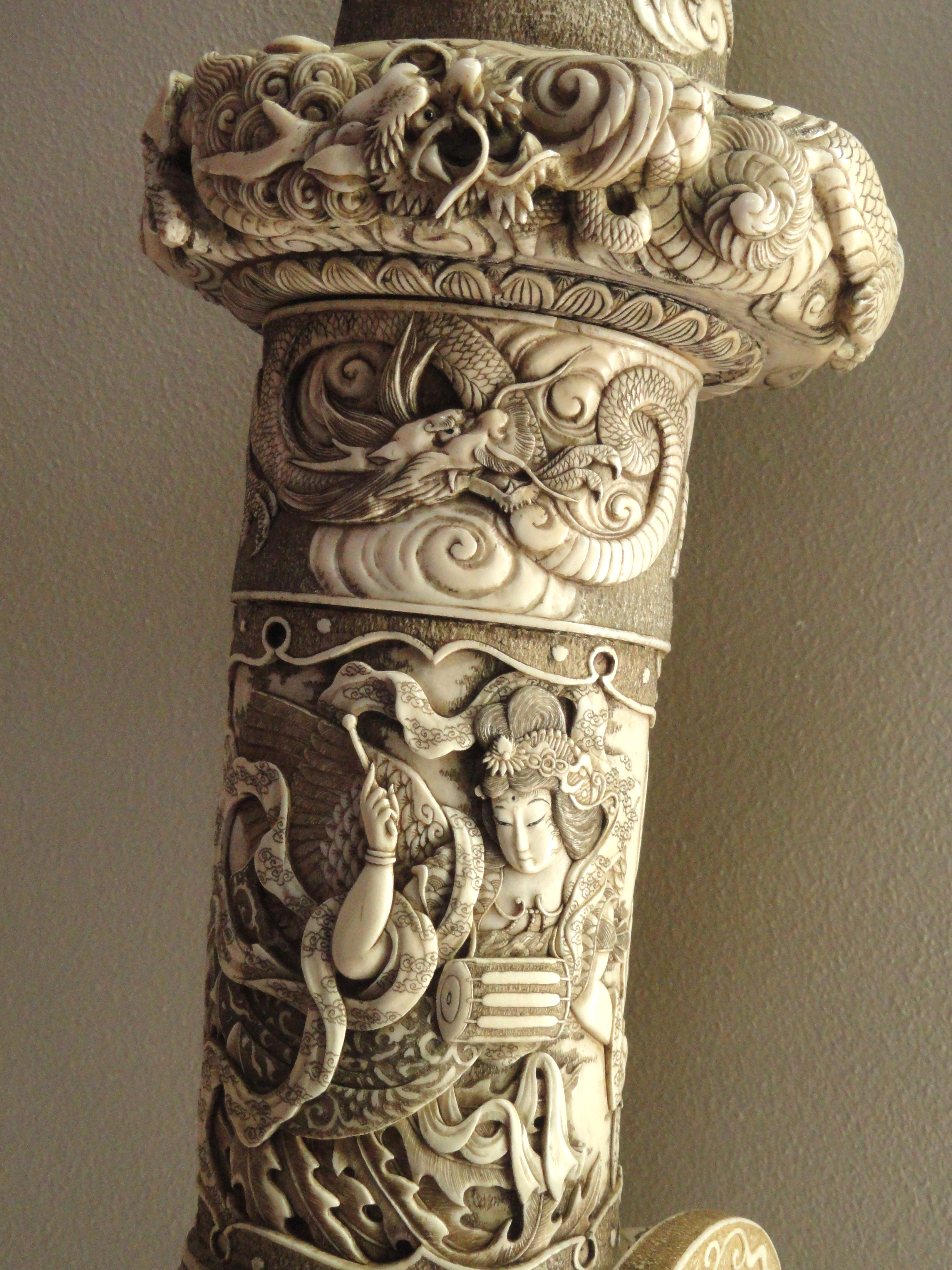 Exhibit in the George Walter Vincent Smith Art Museum, 21 Edwards Street, Springfield, Massachusetts, USA. This item is old enough so that it is in the public domain. The museum permitted photography without restriction.